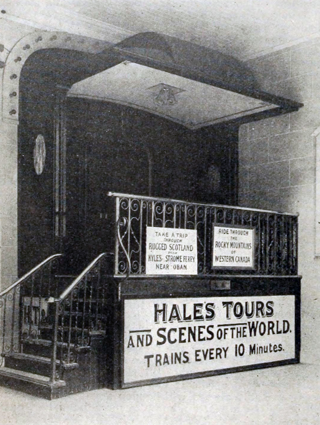 Illustration of an article in The Moving Picture World